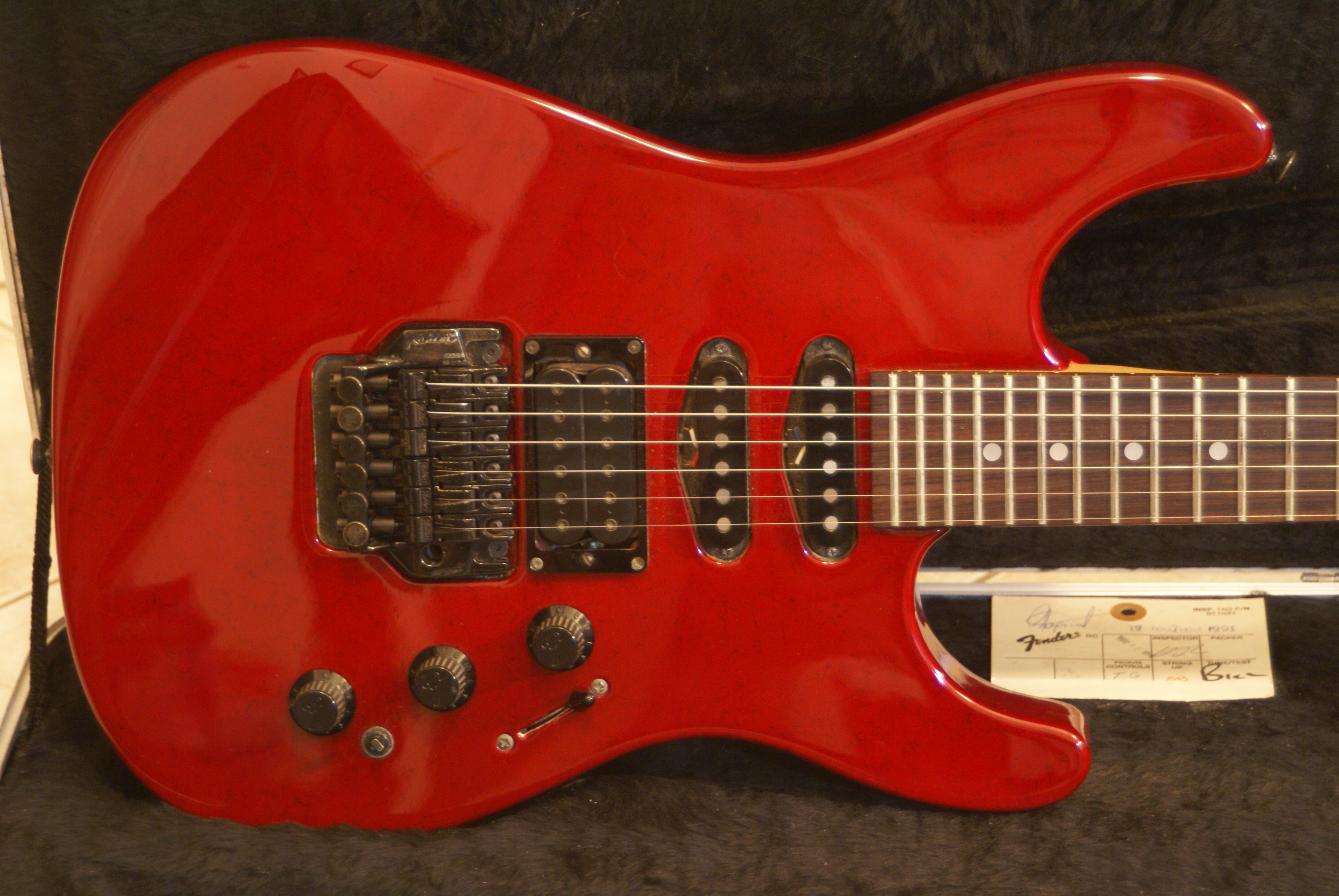 American Fender HM Strat